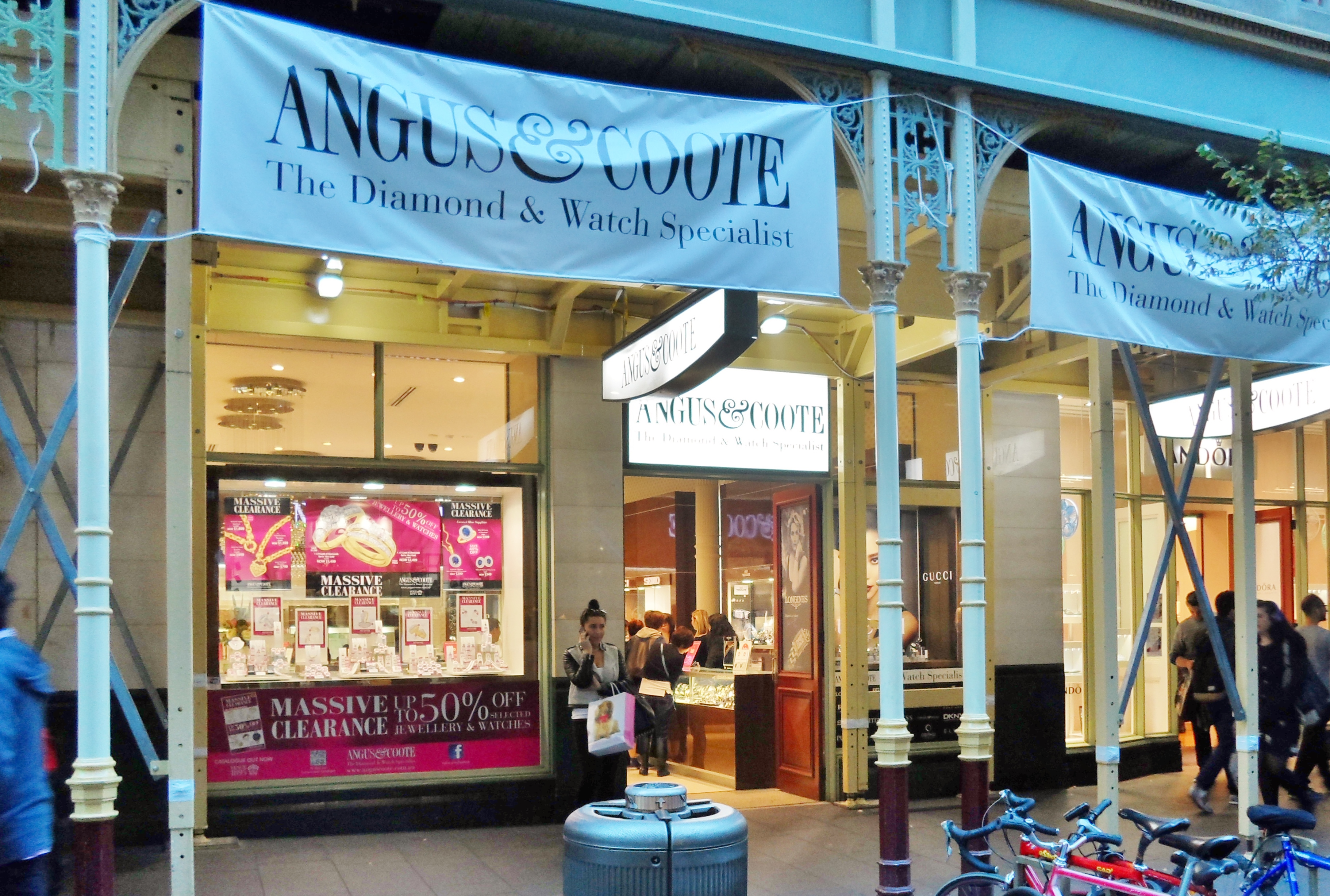 Australian jeweller Angus & Coote's Pitt Street Mall store in downtown Sydney in 2013.